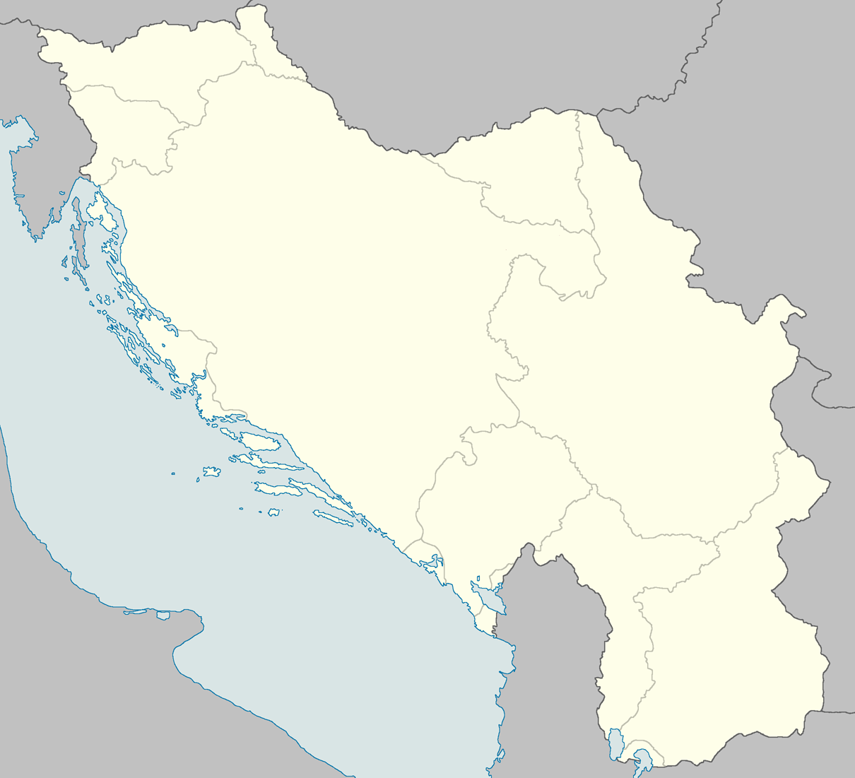 Locator map of occupied Yugoslavia in WWII showing regions of occupation.